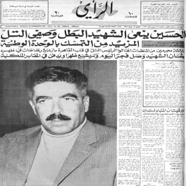 Al-Rai newspaper announces the news of the assassination of Wasfi Al-Tal, and King Hussein mourns Jordanians